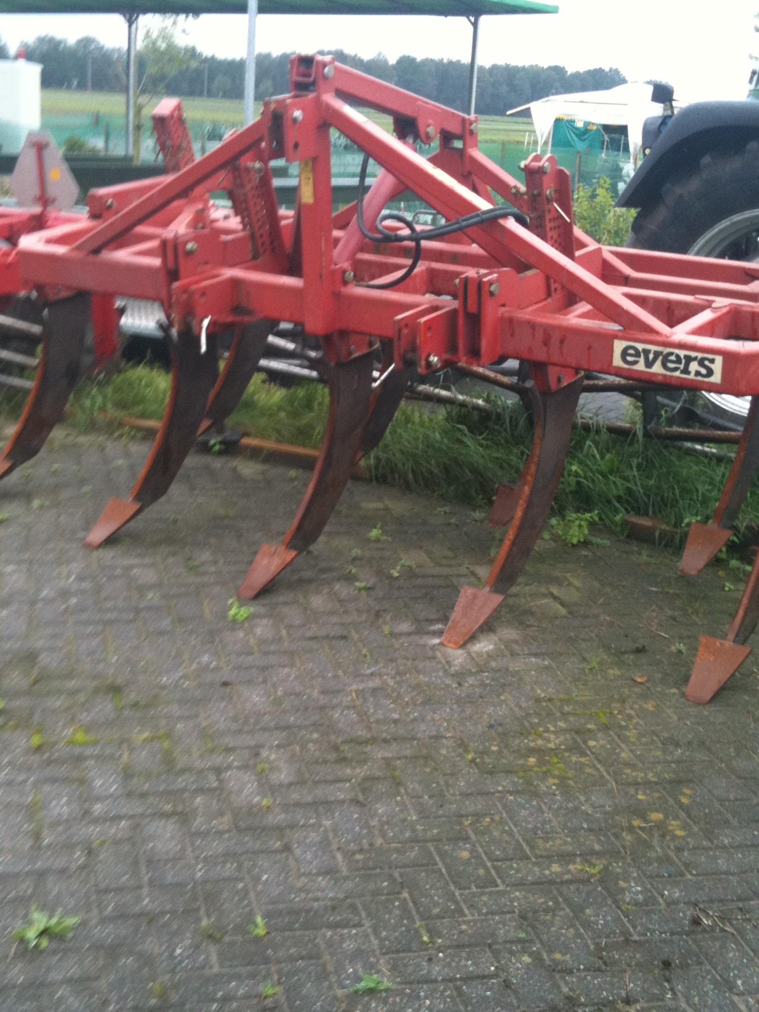 Subsoiler, manufacturer was Evers